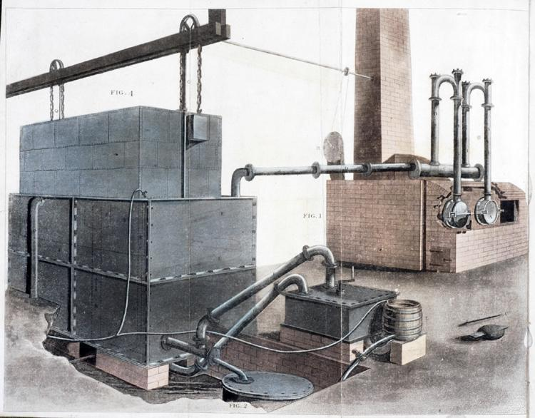 Gas plant as described by Frederick Accum